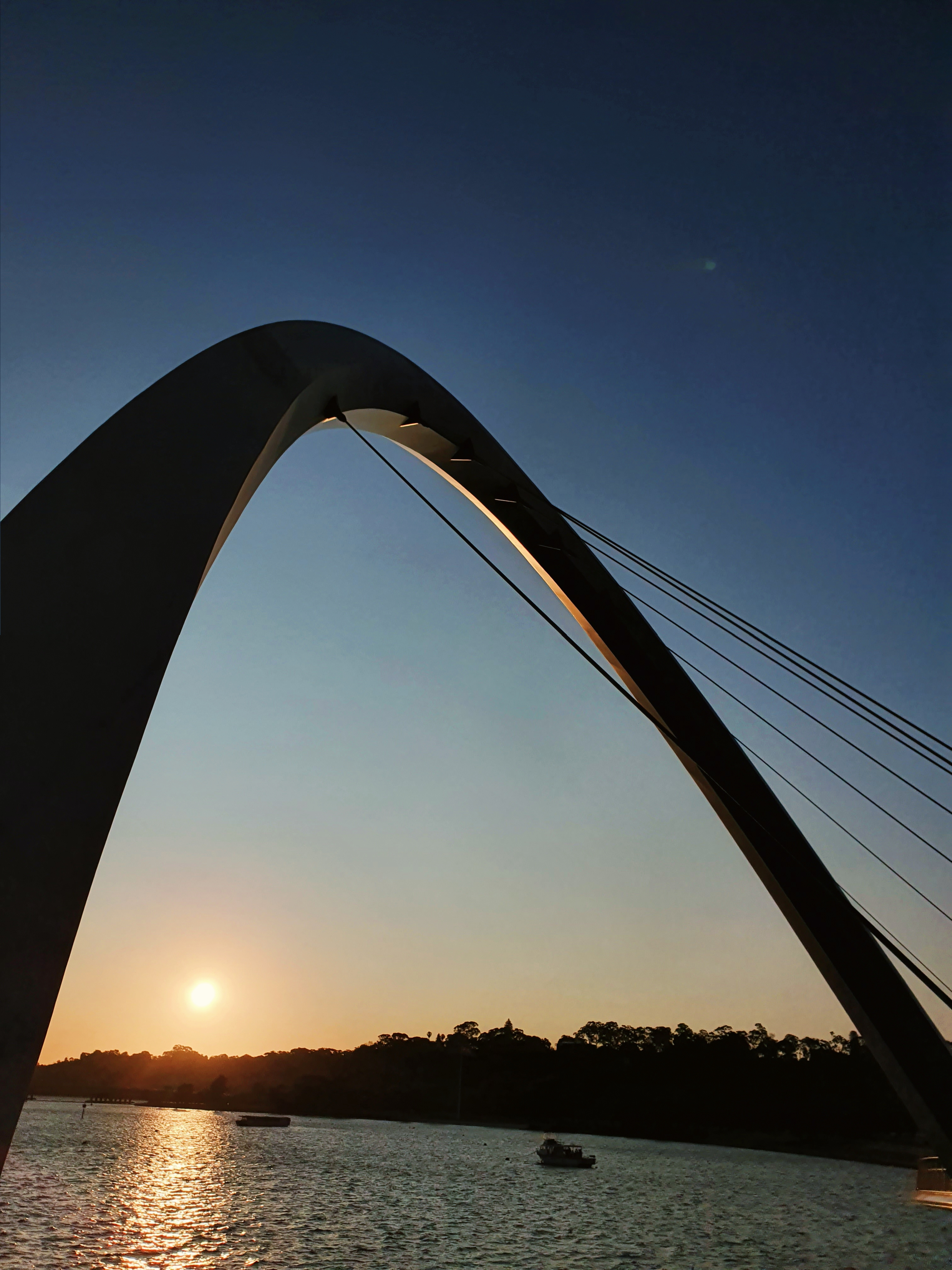 Sunset at Elizabeth Quay Bridge, Perth